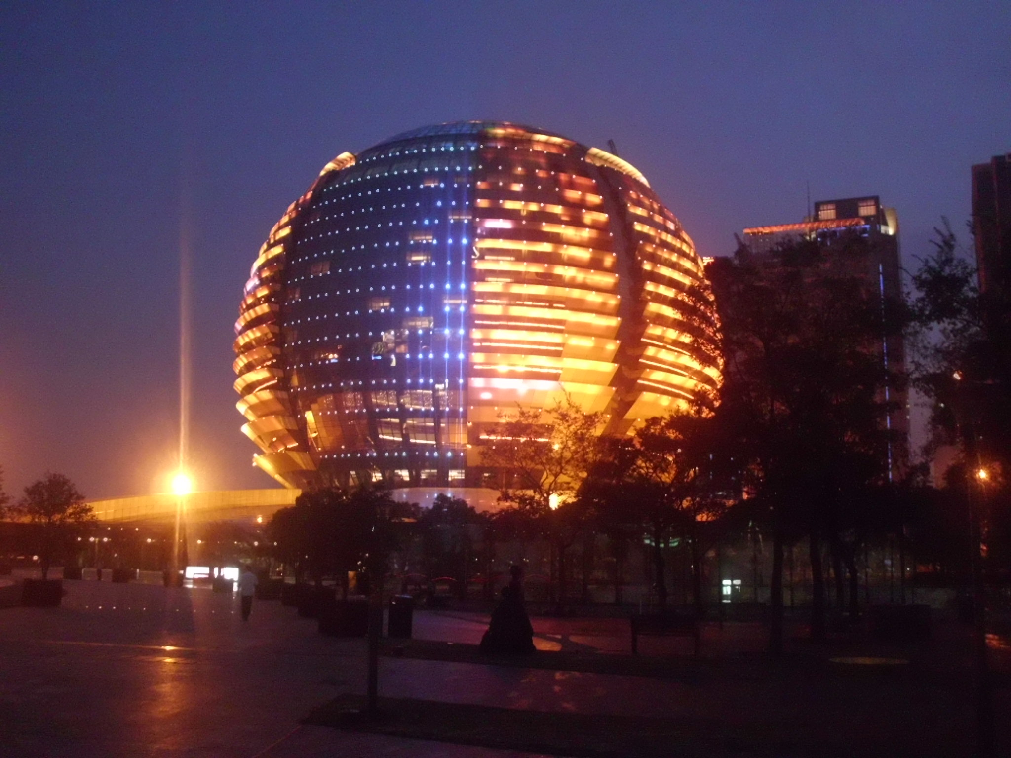 Hangzhou_International_Conference_Center